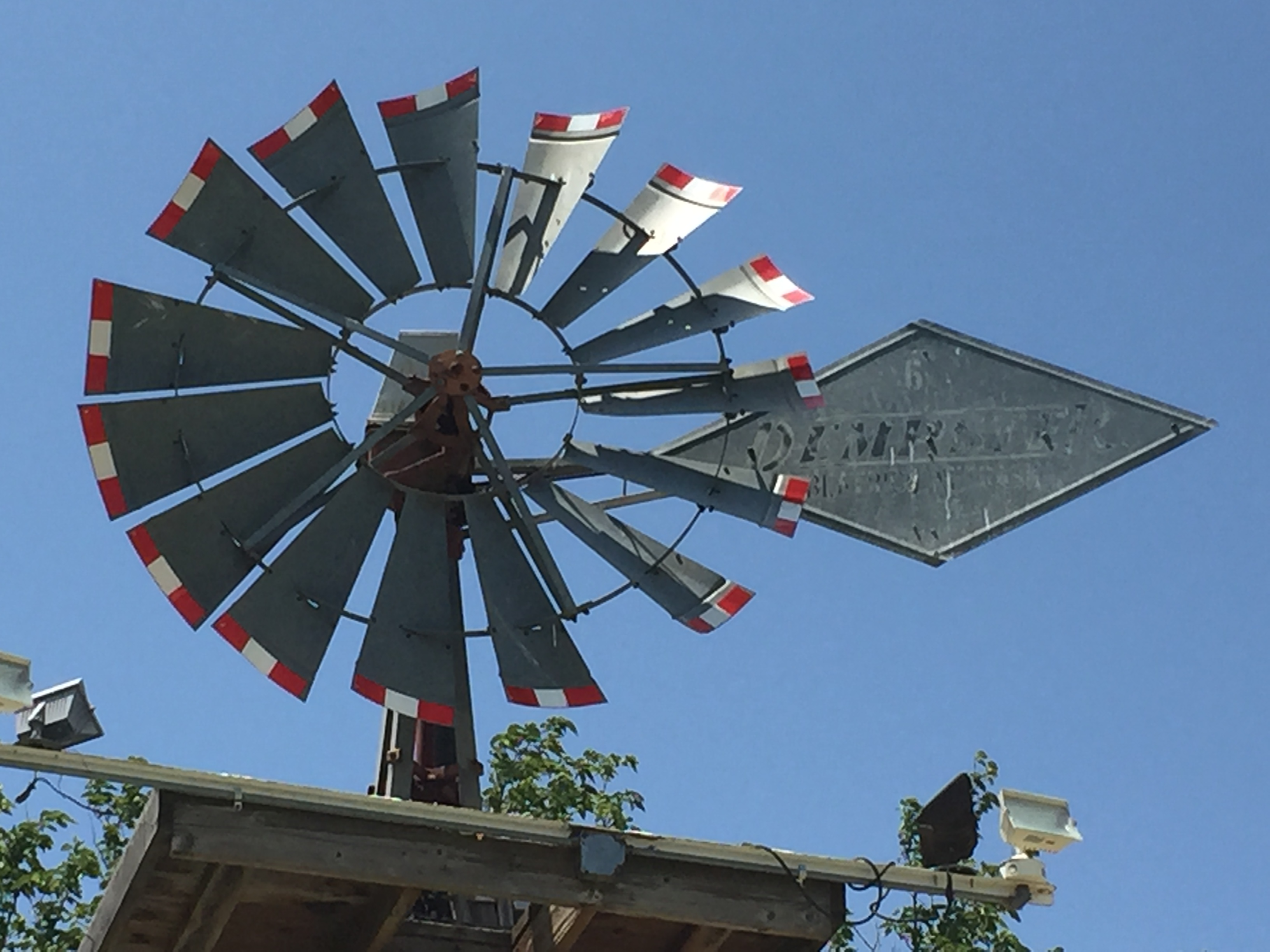 Photo of Dempster windmill at Estelline, TX